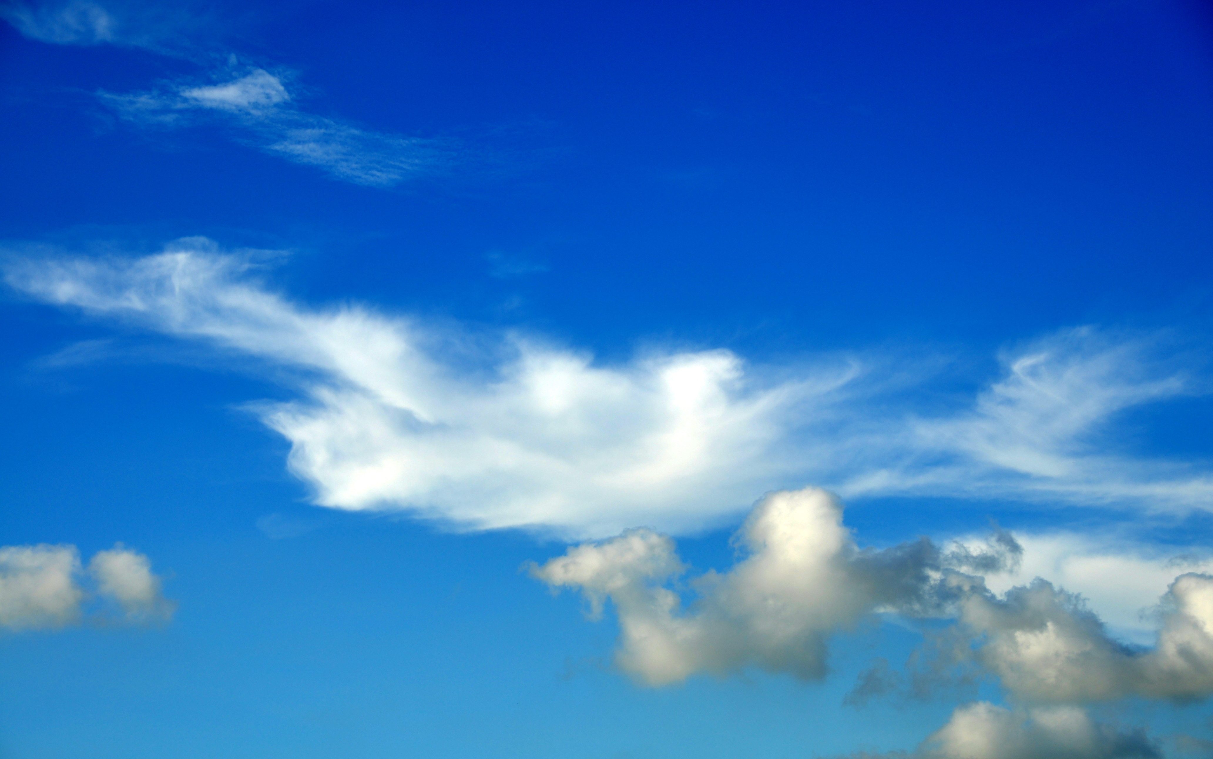 The dense shape cloud(Cirrus) with cancels the shape cloud(Cirrus) composition to resemble the bird to spread the wings the chart.Front compares the low altitude clouds is fractus fra.